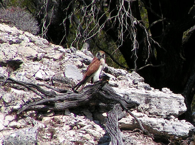 Nankeen Kestrel (Falco cenchroides) with kill, Rottnest Island, Western Australia